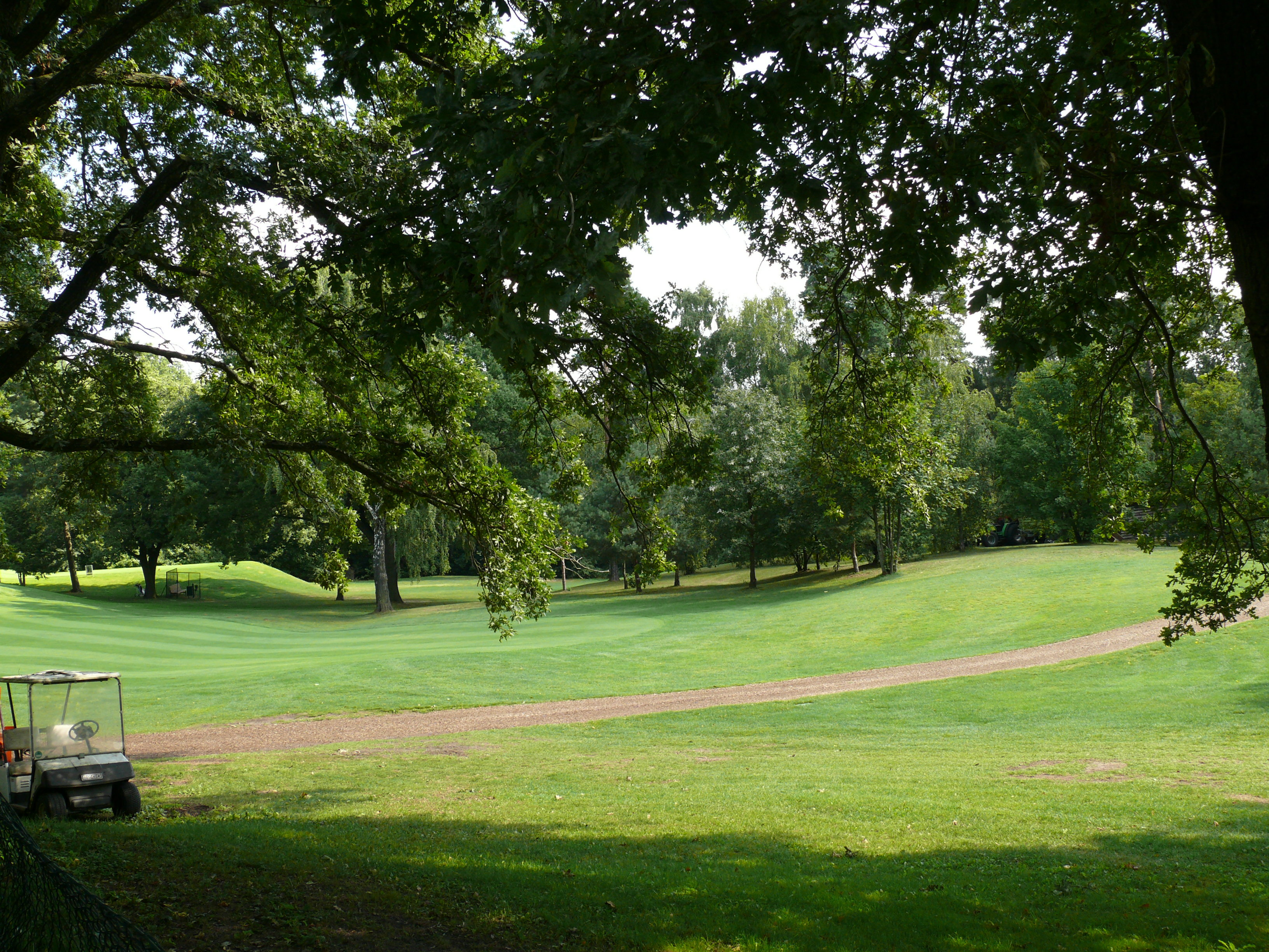 Berlin-Wannsee Golf- und Landclub Berlin-Wannsee